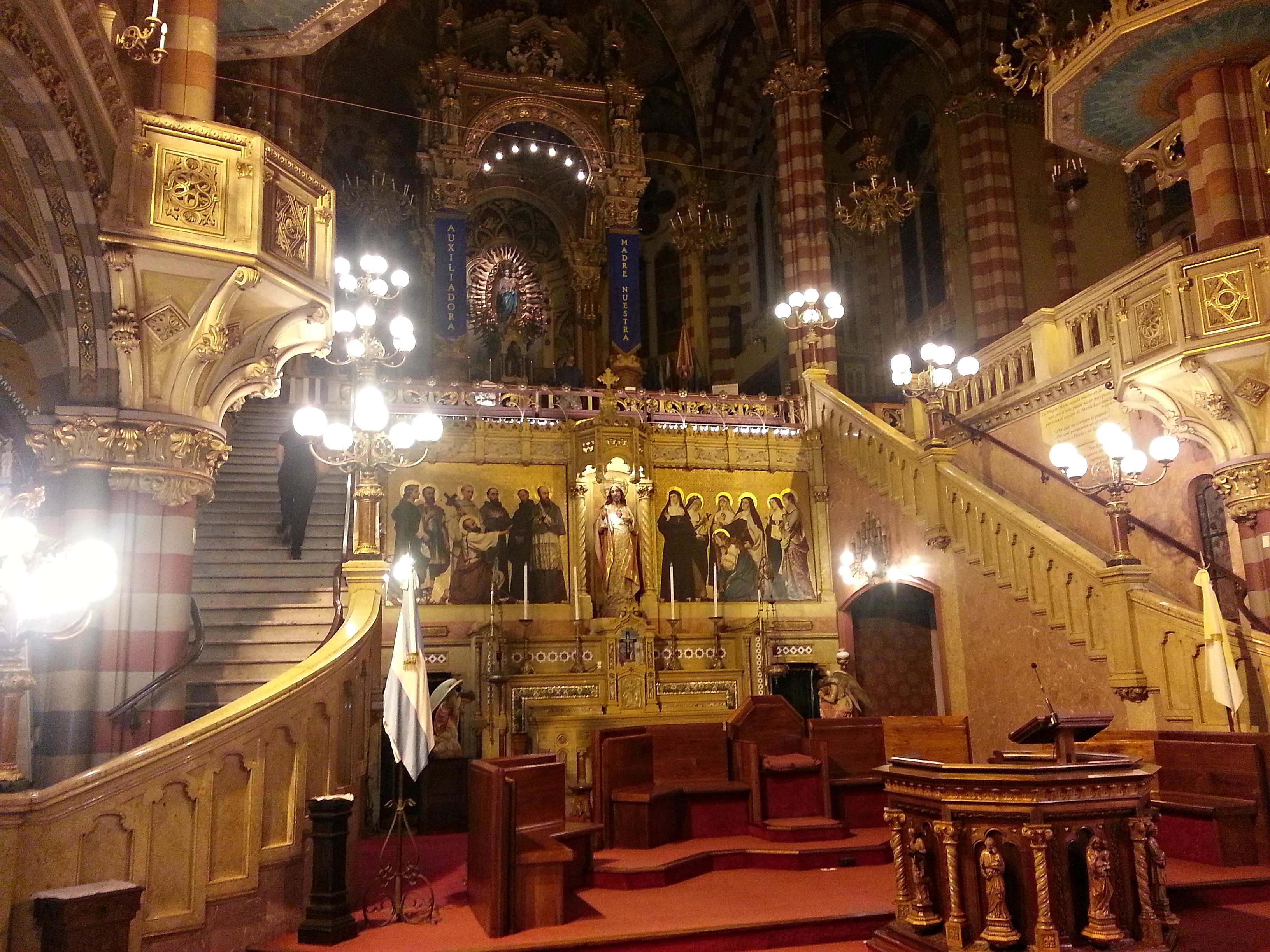 Overview of the main altar of the Middle Temple. Two marble stairways allow access to the Upper Temple, where the chapel of Mary Help of Christians is.